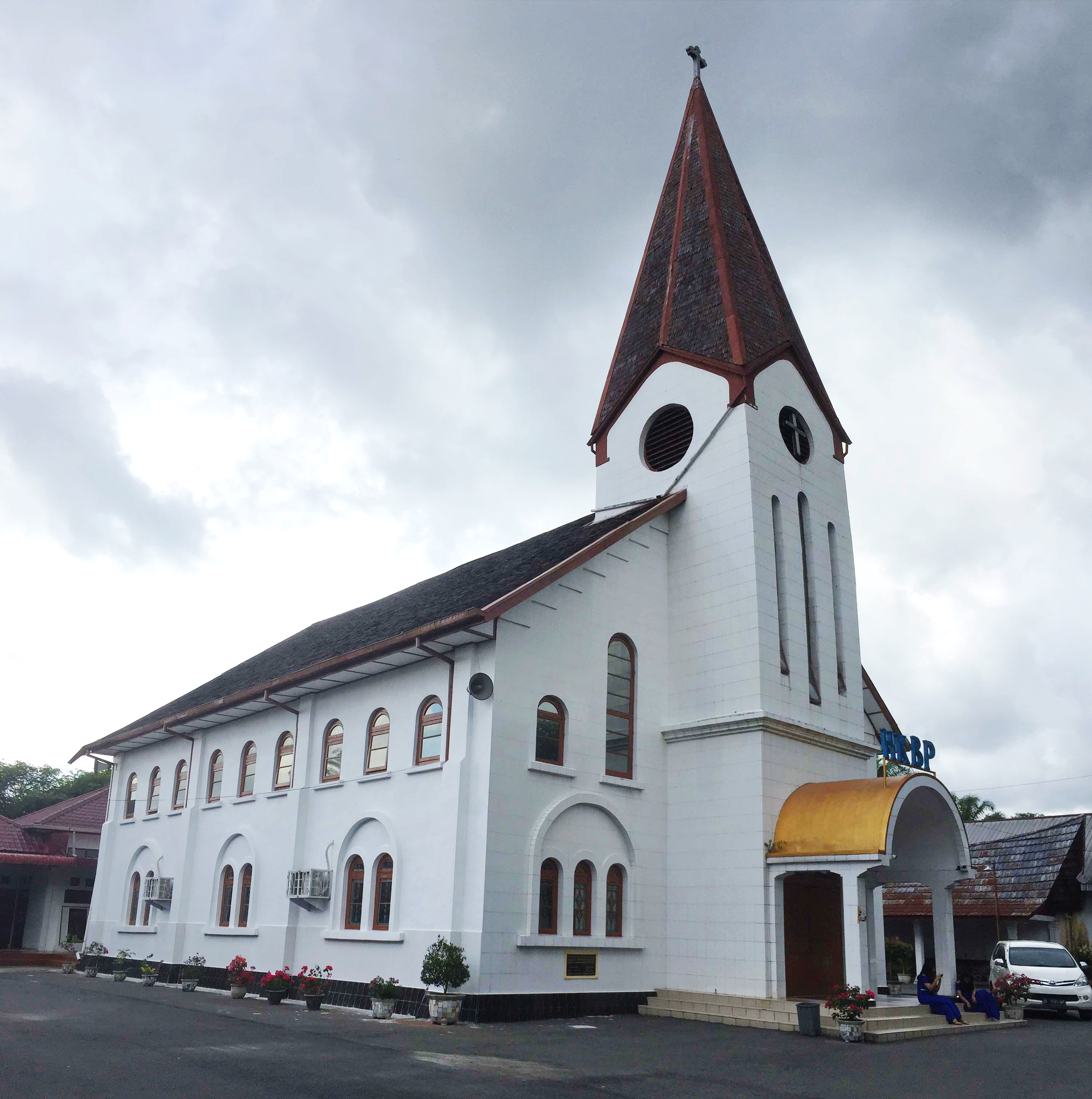 HKBP Pematangsiantar, Resort Pematangsiantar, Church in Siantar Selatan, Pematangsiantar.